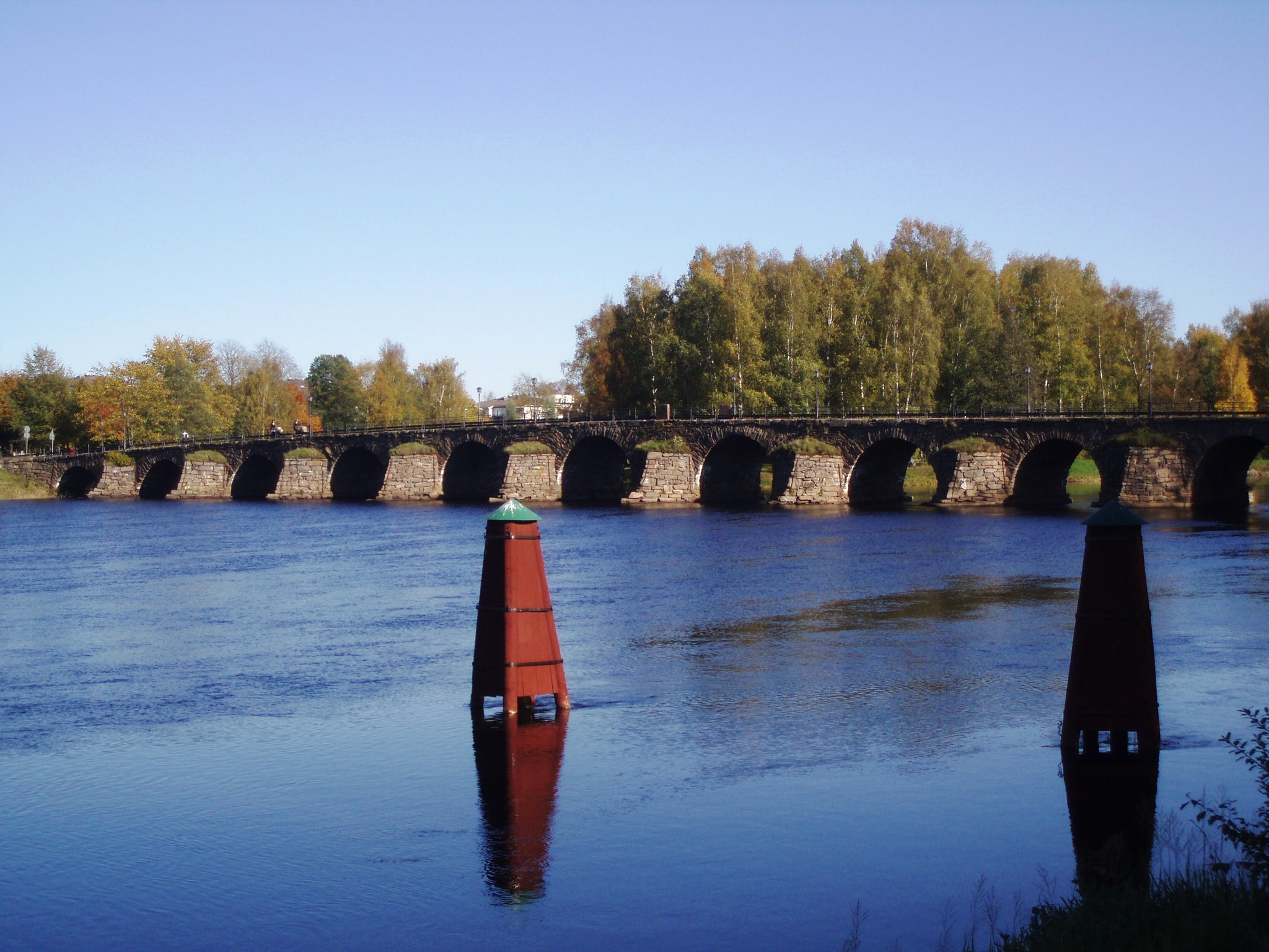 The East Bridge